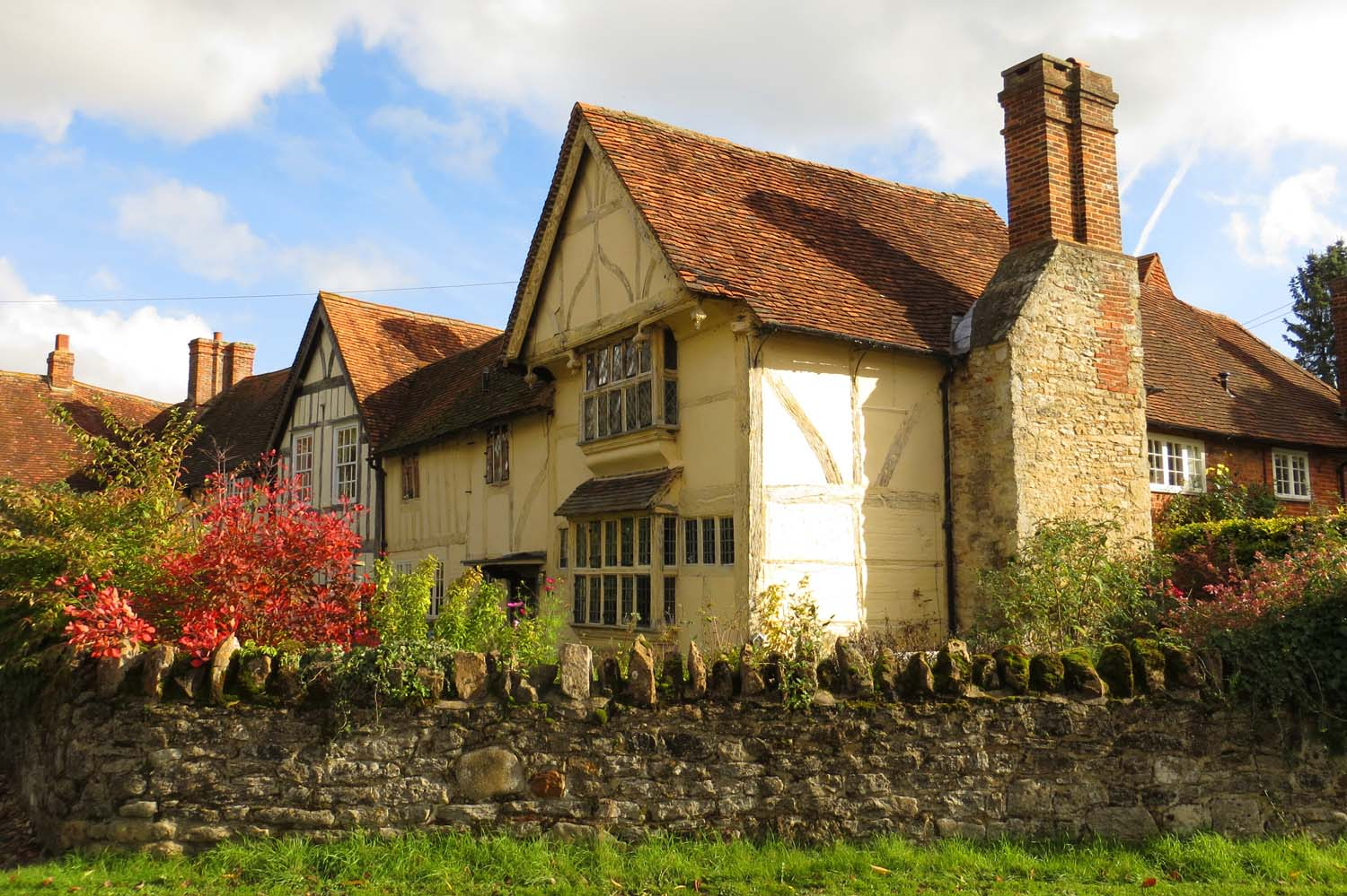 Priory Cottages, 123 and 127 the Causeway, Steventon, Oxfordshire (formerly Berkshire)